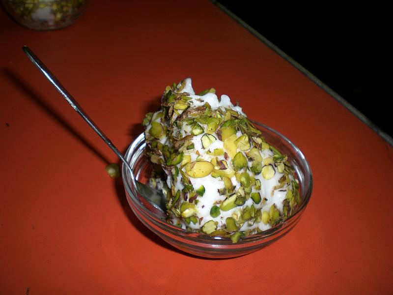 Ice cream at Bakdash ice cream parlor